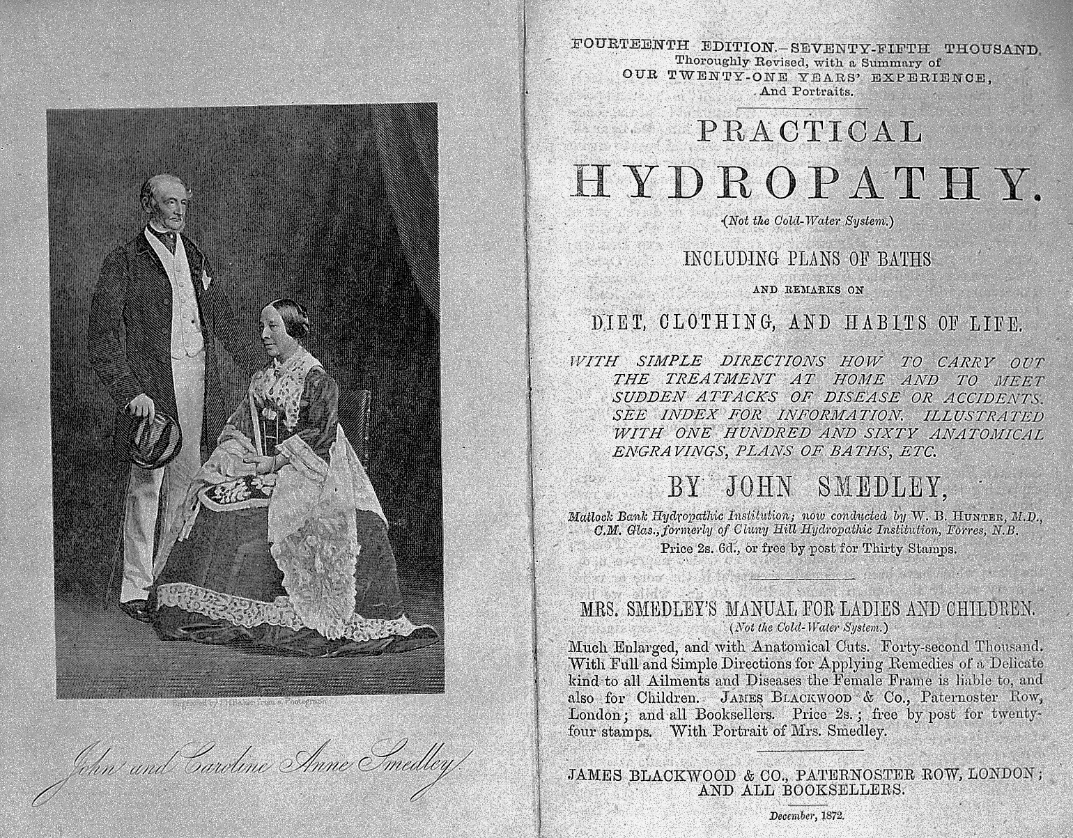 Title page and portrait of John and Caroline Anne Smedley. General Collections Keywords: John Smedley